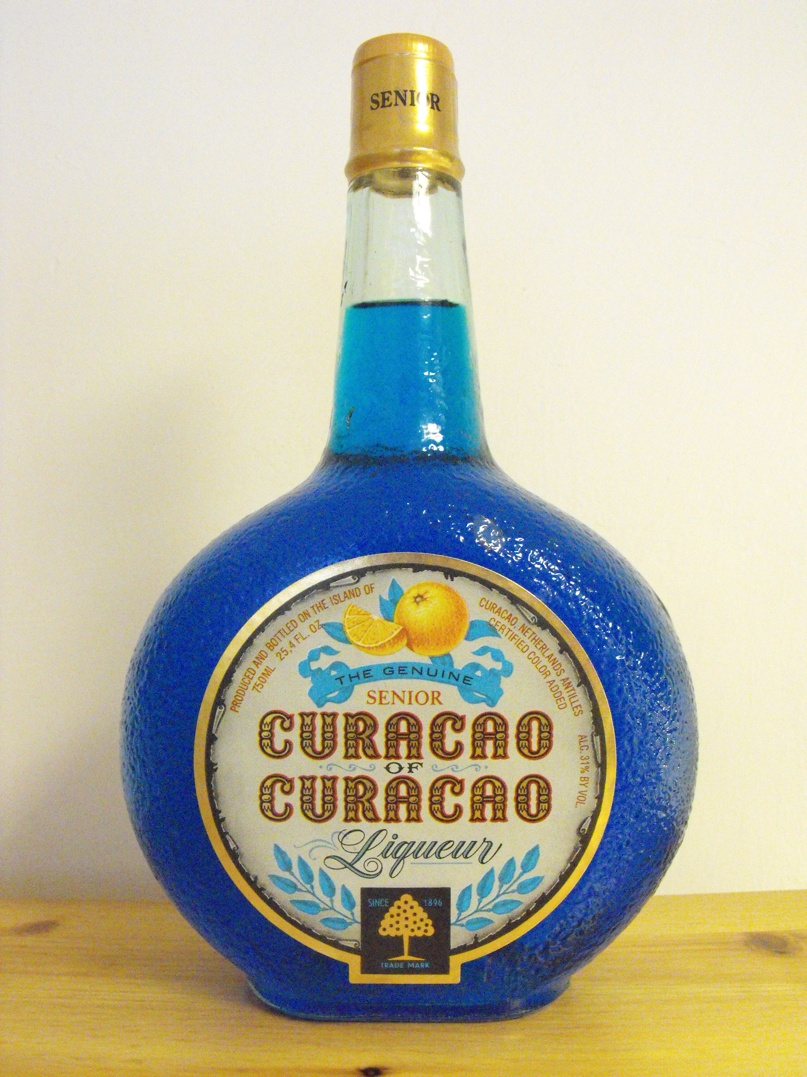 Senior's blue Curaçao.